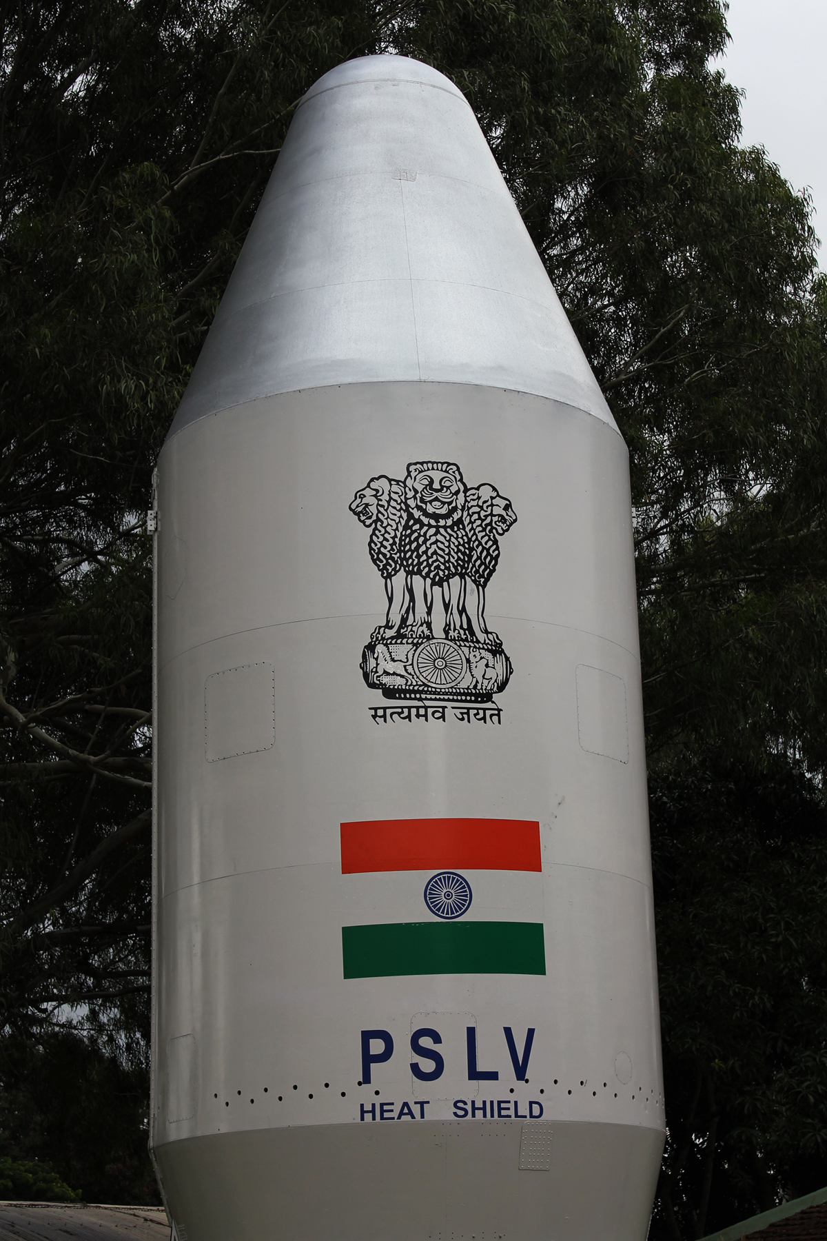 PSLV ISRO India Launch Vehicle